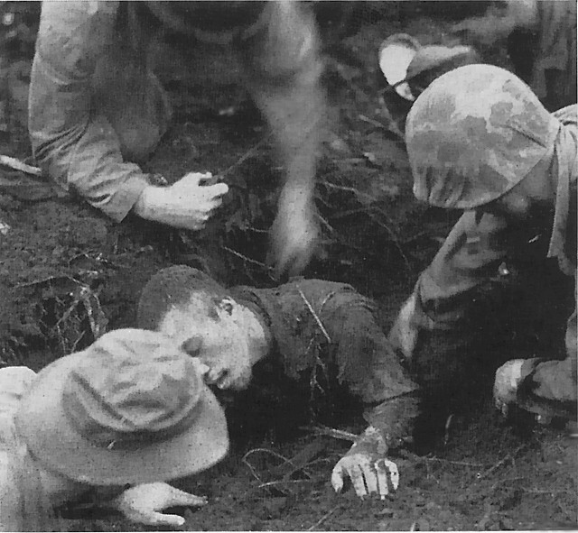 A japanese soldier in a burrow - Corporal Shigeto literally had to be dug out of his position in the jungle of Cape Gloucester